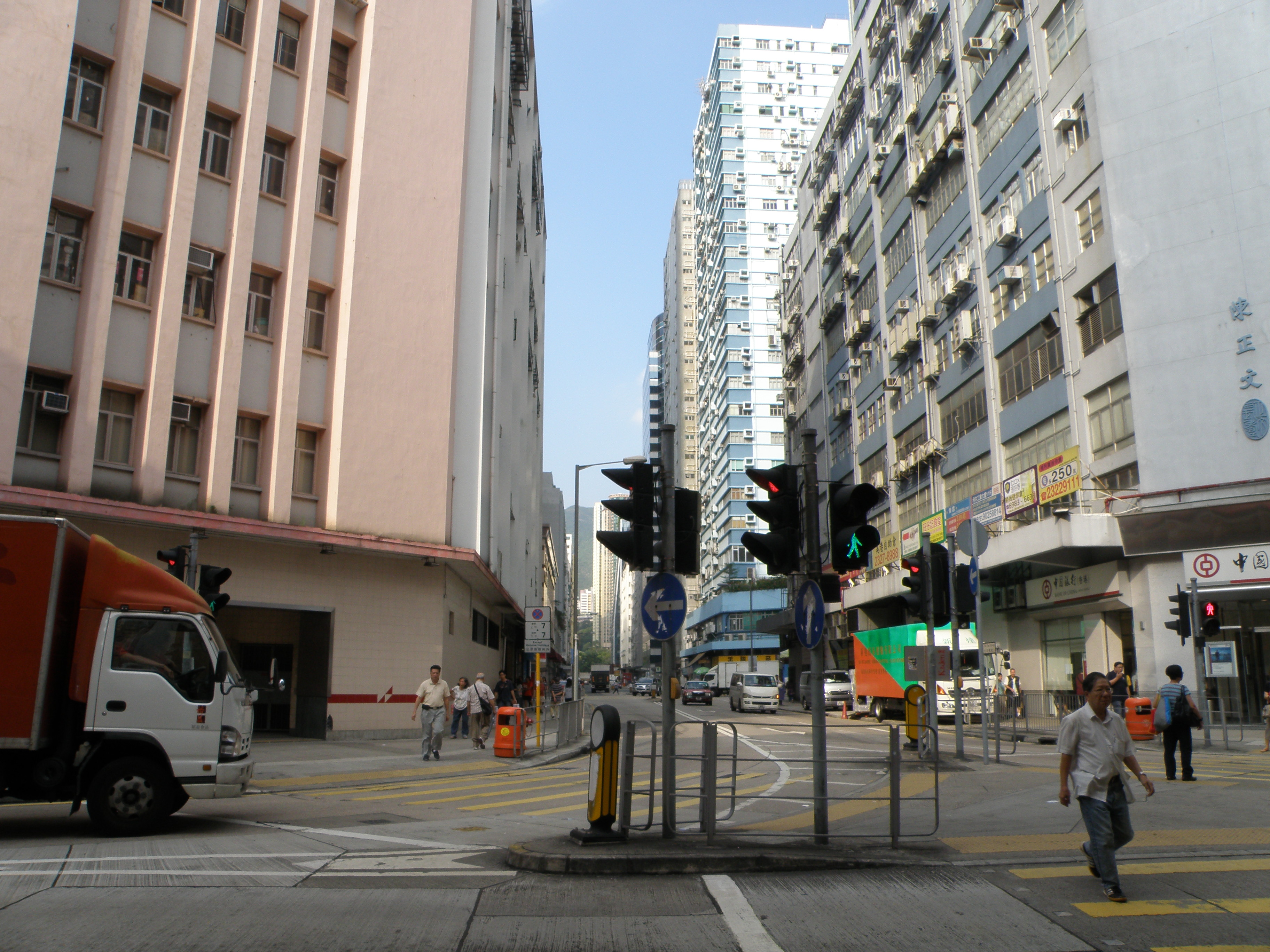 Tai Yau Street in San Po Kong, Hong Kong.